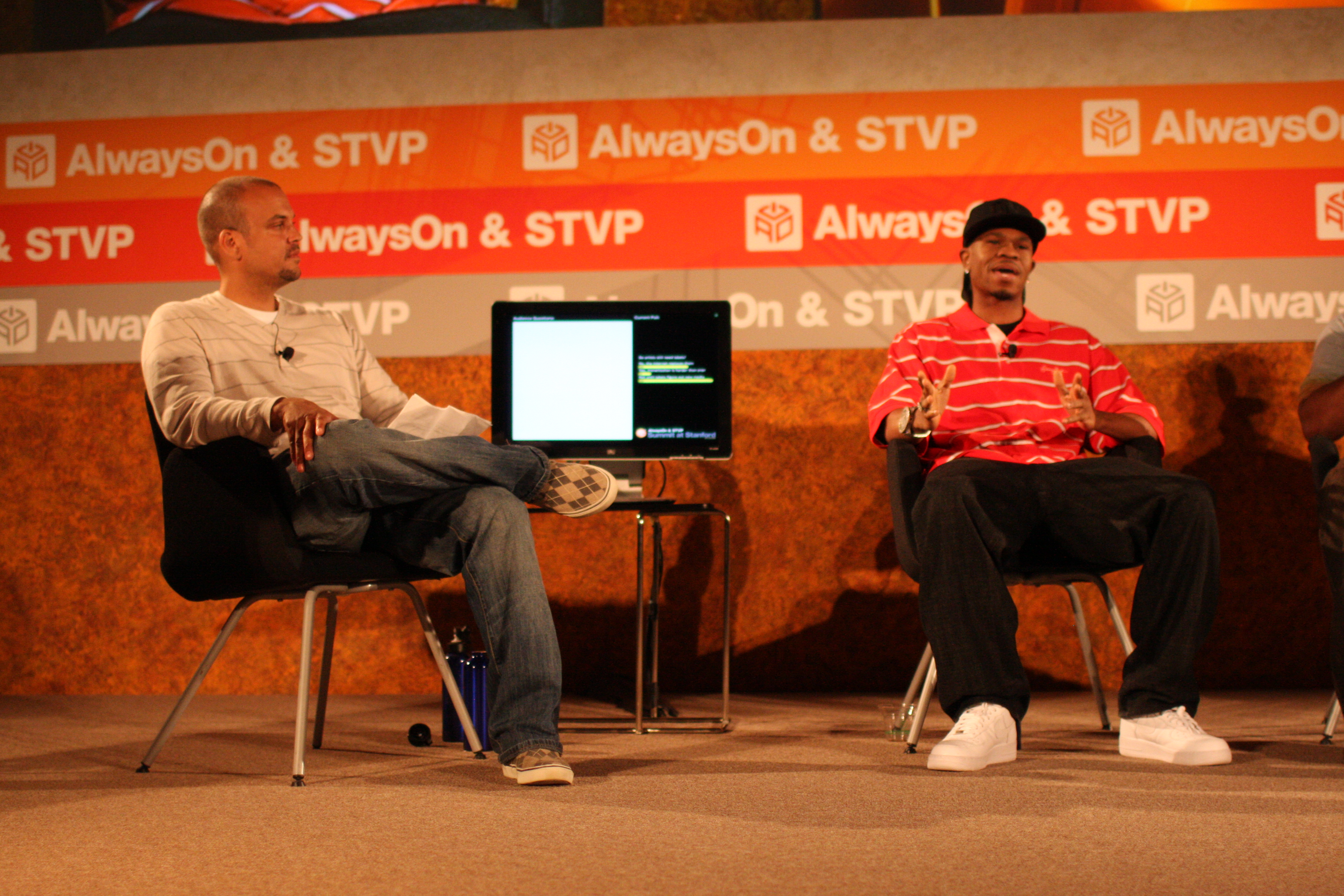 Quincy Jones III and Chamillionaire. (CC) Brian Solis, and .